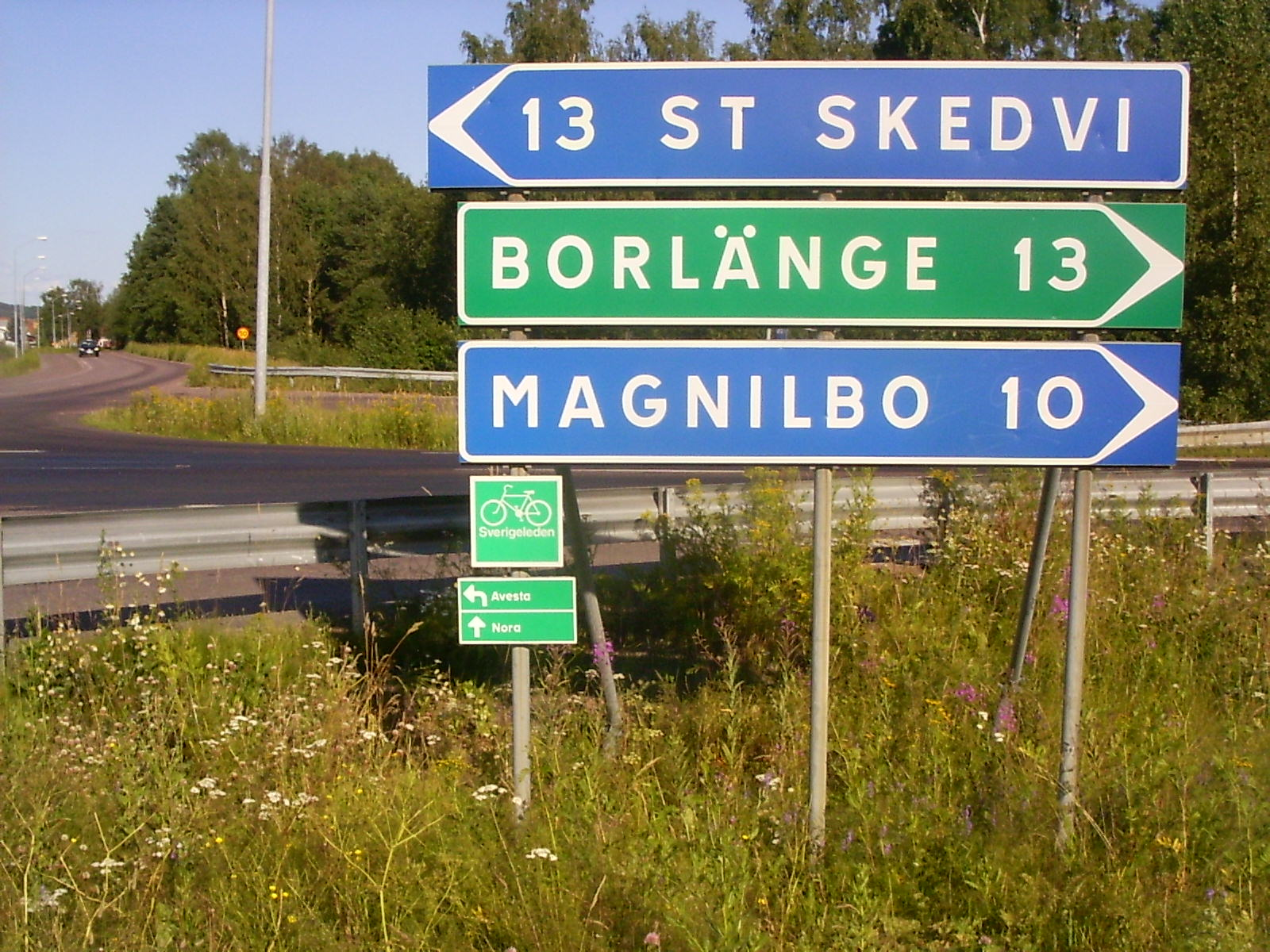 Sverigeleden node at Gustafs